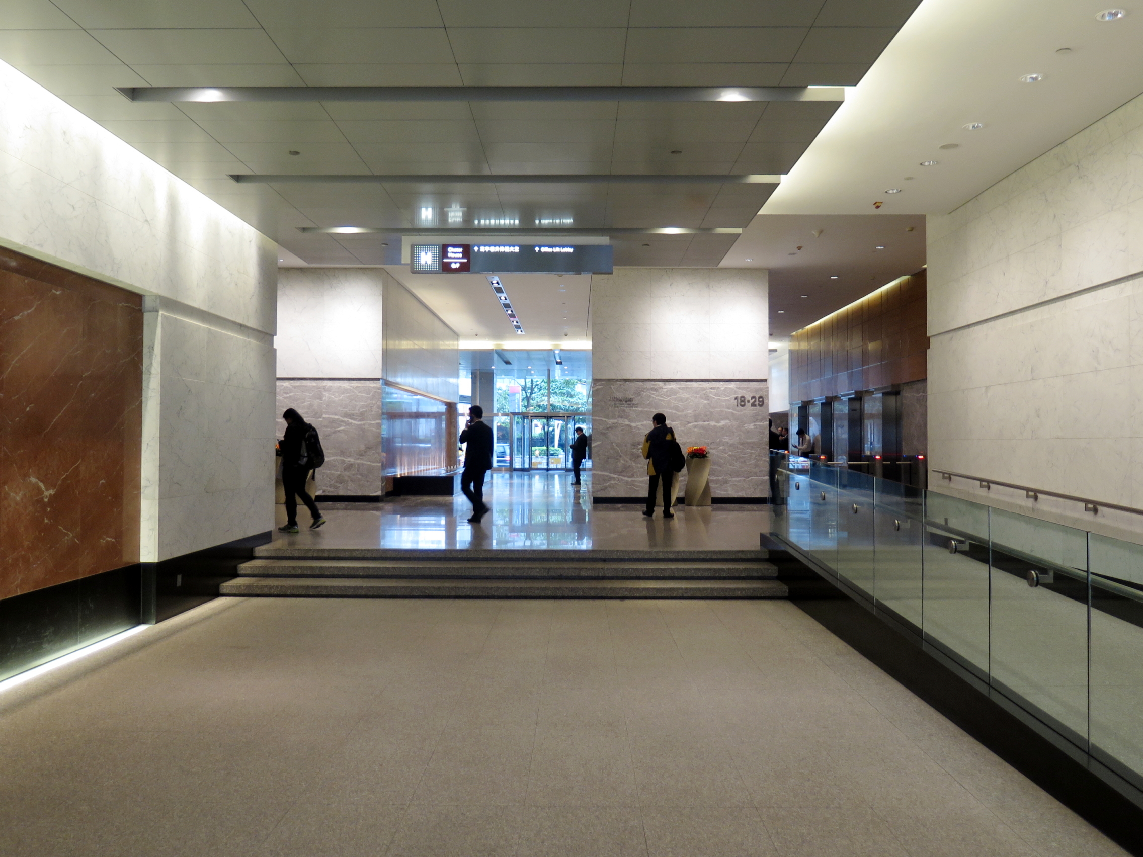 Chater House Office lobby